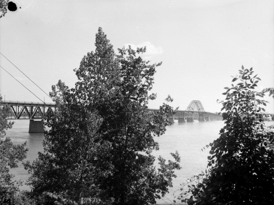 We see the Mercier Bridge between Lasalle and Kahnawake.